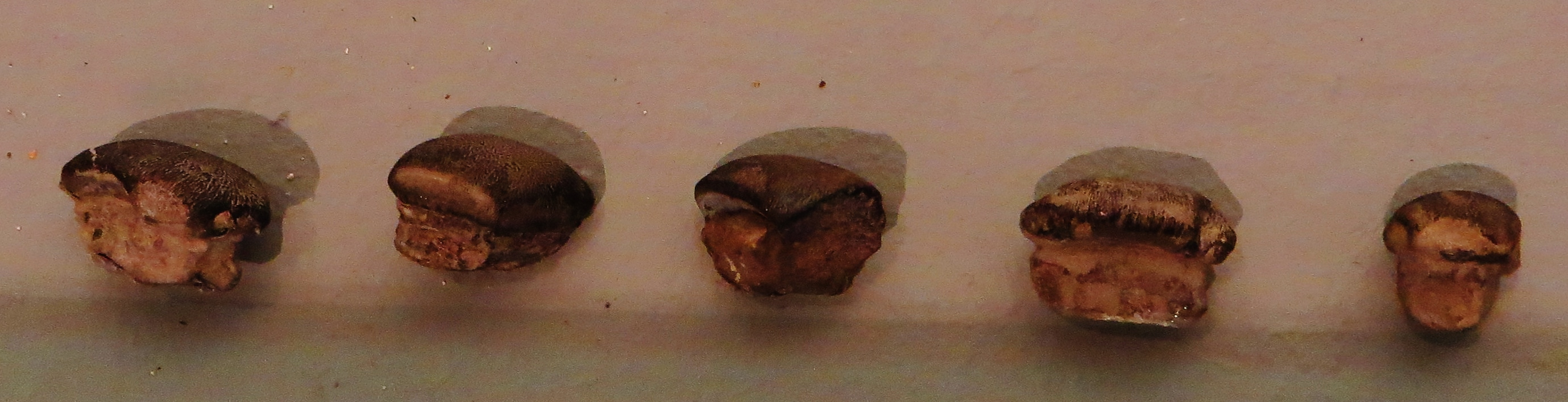 Fossil of Bdellodus, an extinct fish. Took the picture at Museum of Paleontology, Tubingen